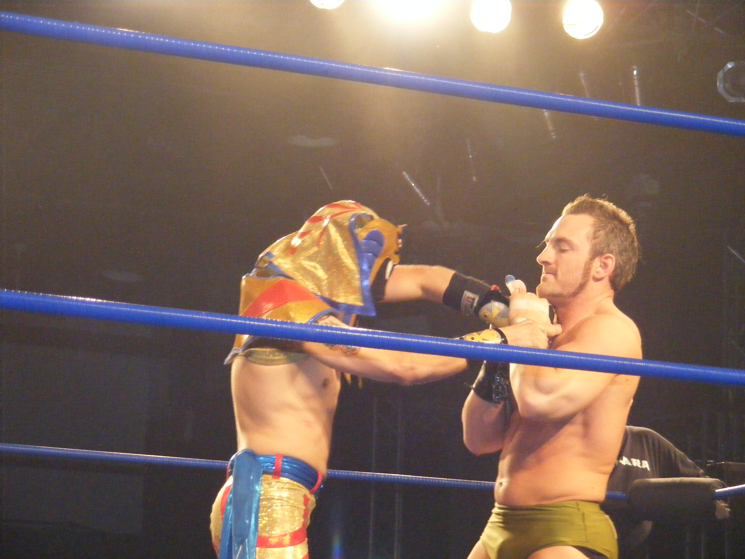 Matt Cross (right) vs. Ophidian (left) at Chikara's 2010 King of Trios